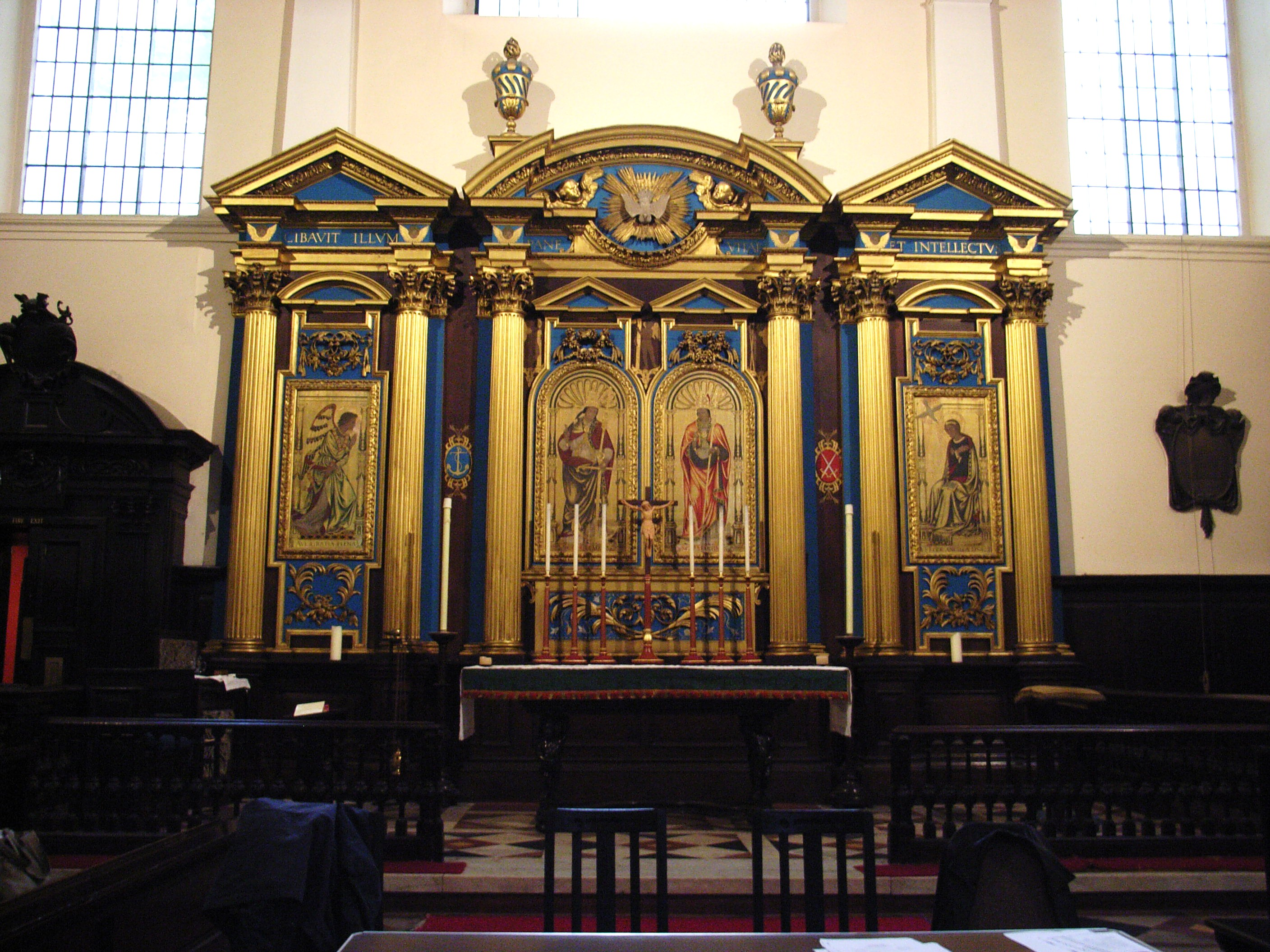 For full details see the Wikipedia page for St Clement Eastcheap